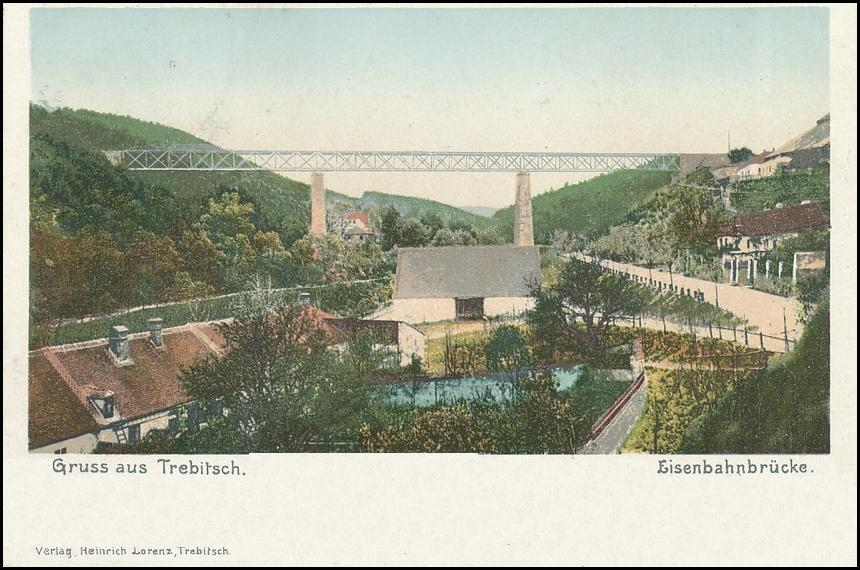 Borovina railway bridge in 1901 by Jindřich Lorenz in Třebíč, Třebíč District.